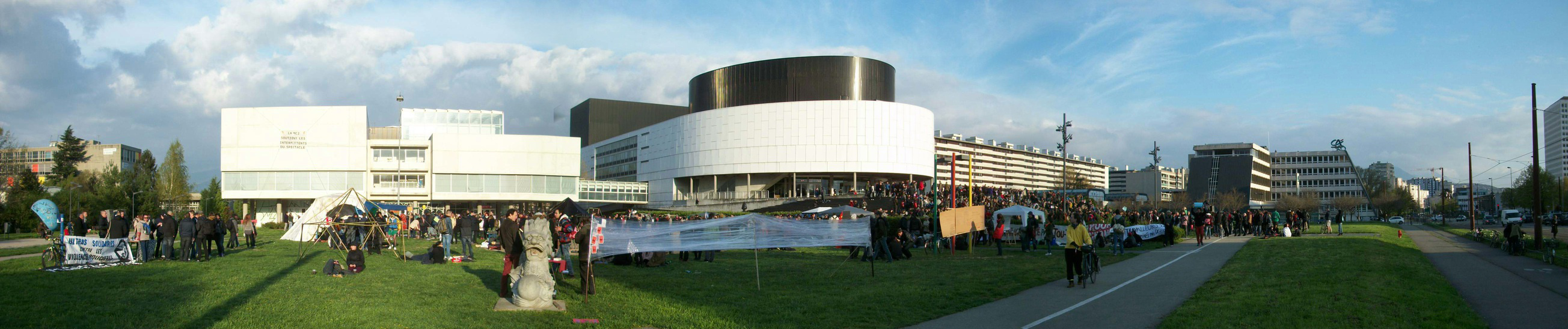 Nuit debout protest event in Grenoble, Isère, France, on april 9th, 2016 Object location45° 10′ 21.11″ N, 5° 43′ 57.14″ E